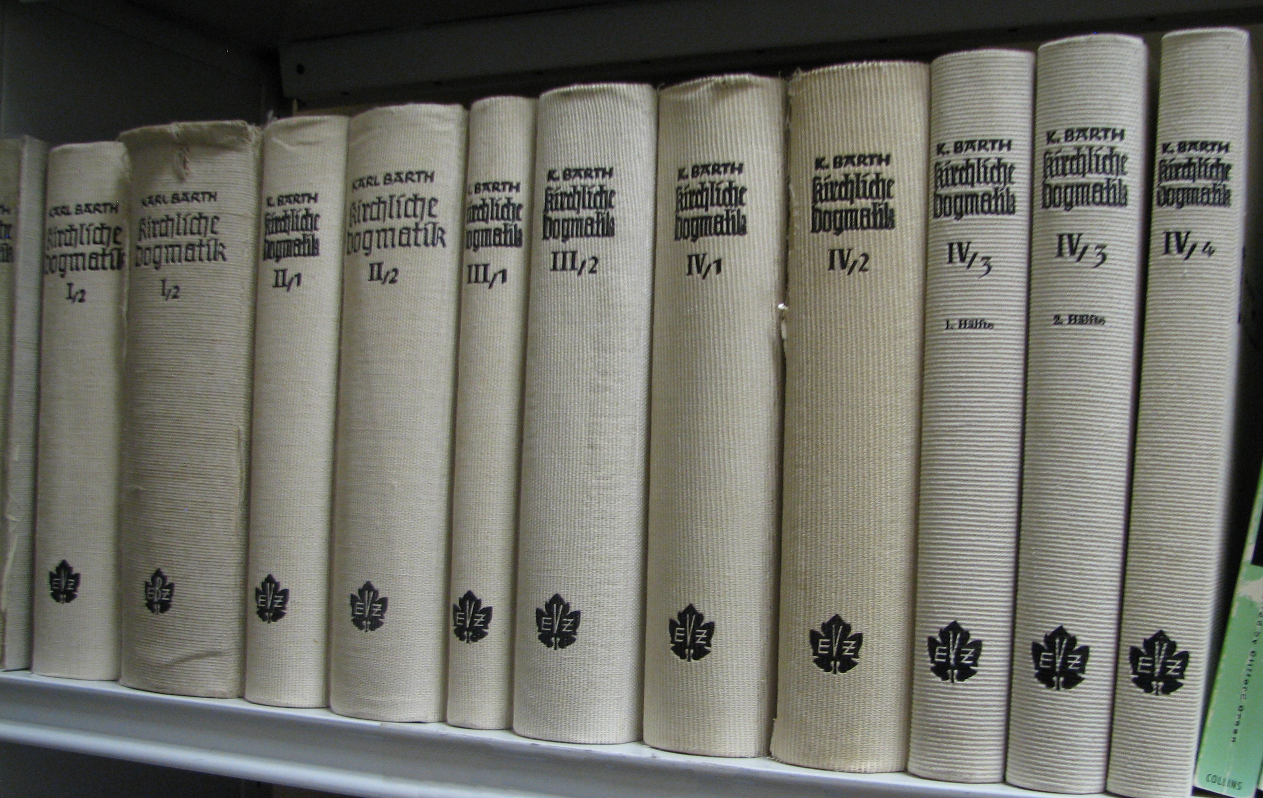 Karl Barth: Kirchliche Dogmatik.